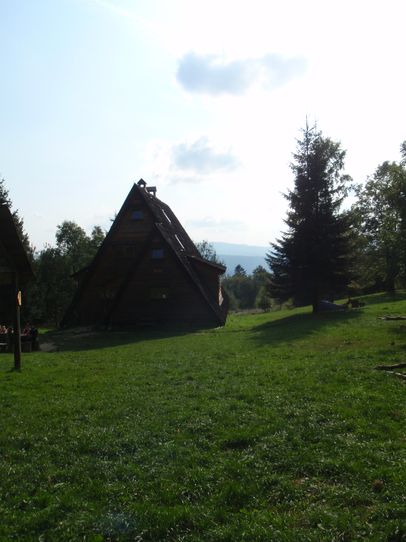 Mountain Hut "Chata Socjologa" in Bieszczady